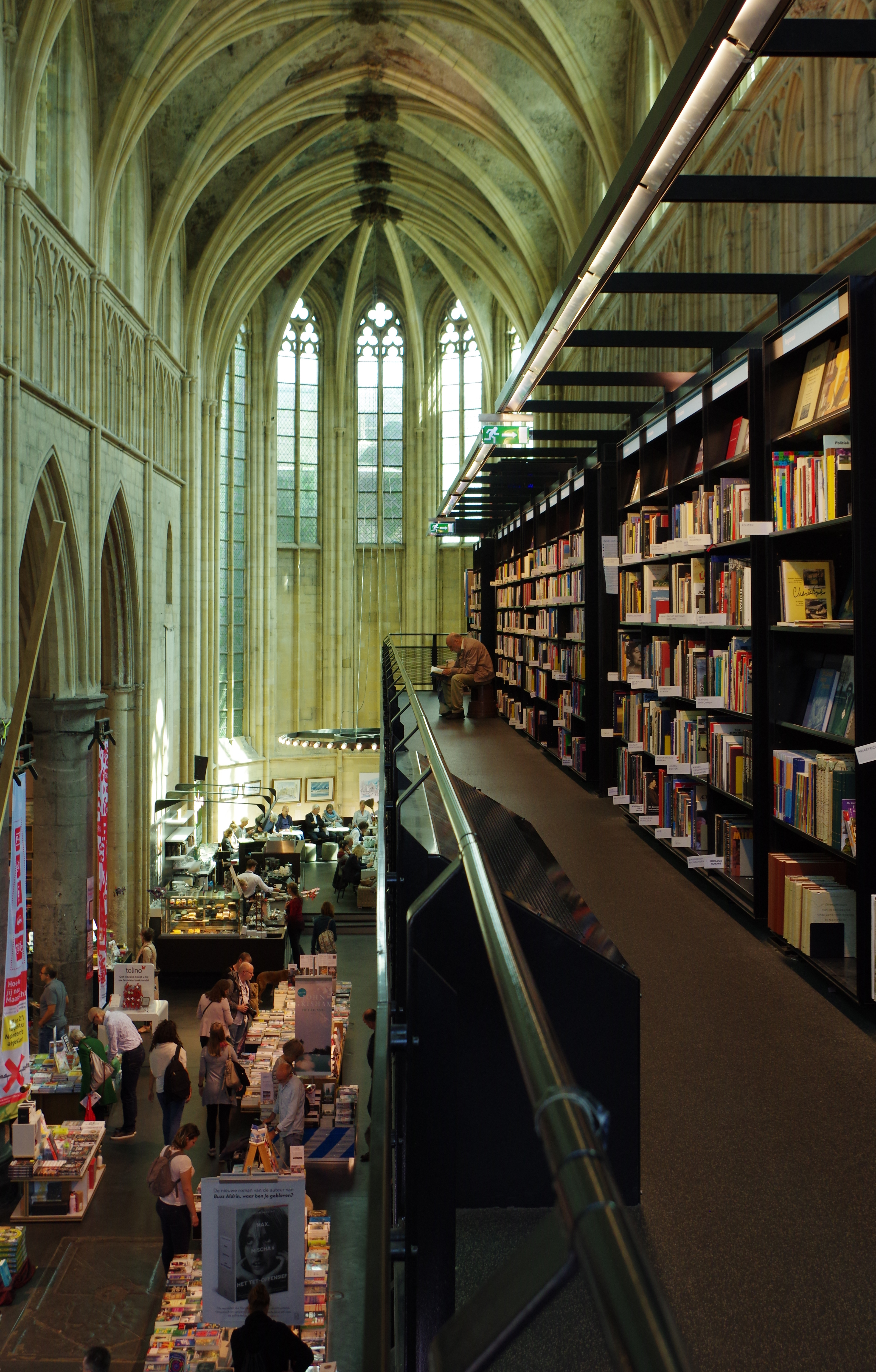 Maastricht, Dominicanenkerk